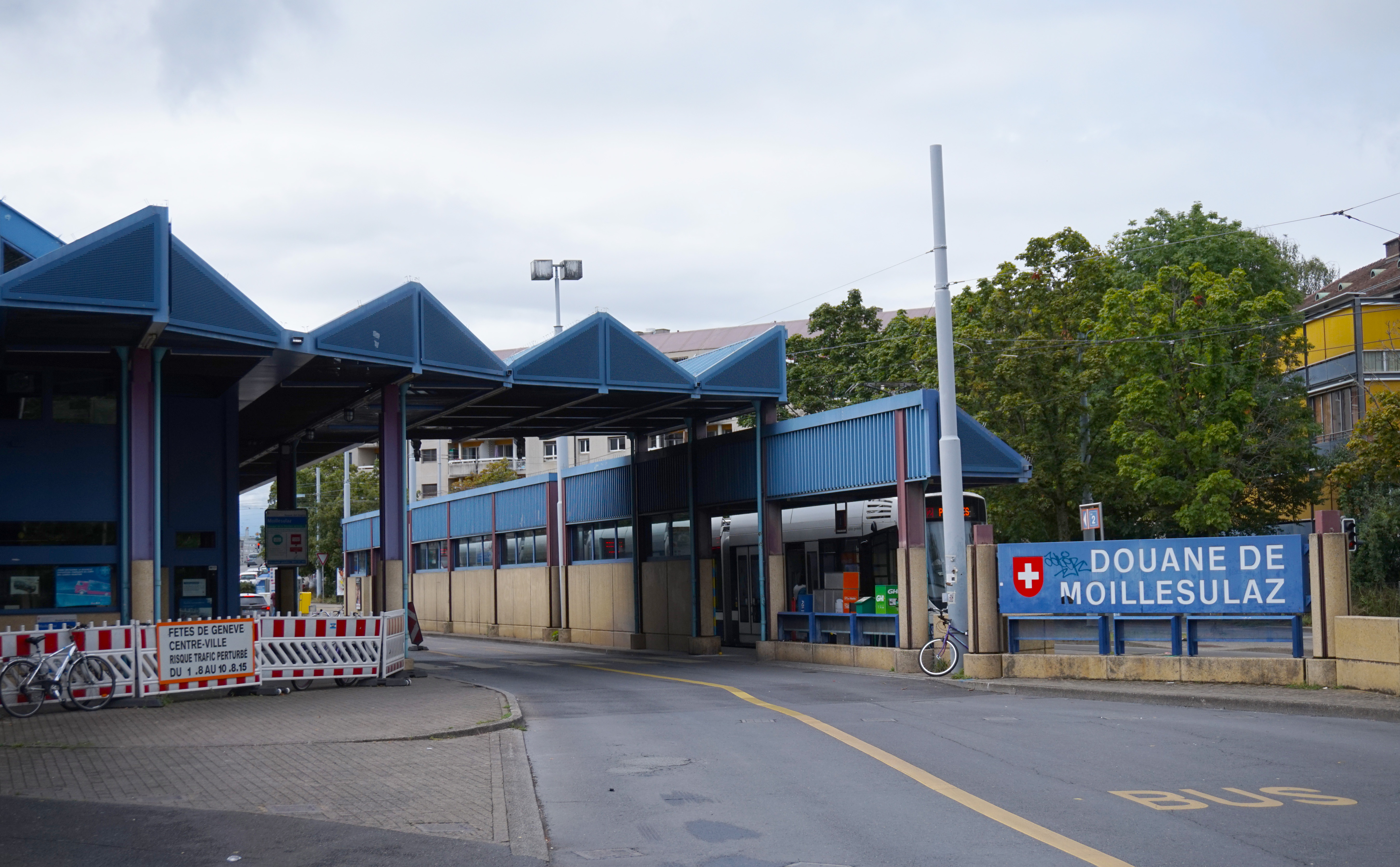 Border of France and Switzerland on the street Rue de Geneve.This photograph was taken with a Sony ILCE-5000